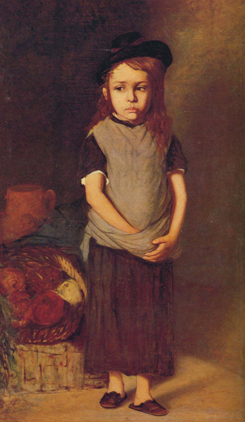 Cossette, painting by Konstantinos Panorios